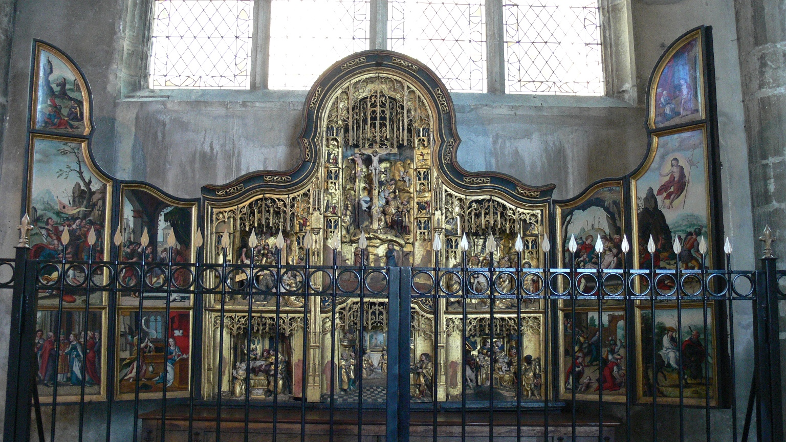 Altarpiece in Pont-à-Mousson, Lorraine, France. Orderer by Duchess of Lorraine : Philippe de Gueldre in XVI° century to a factory in Antwerp.